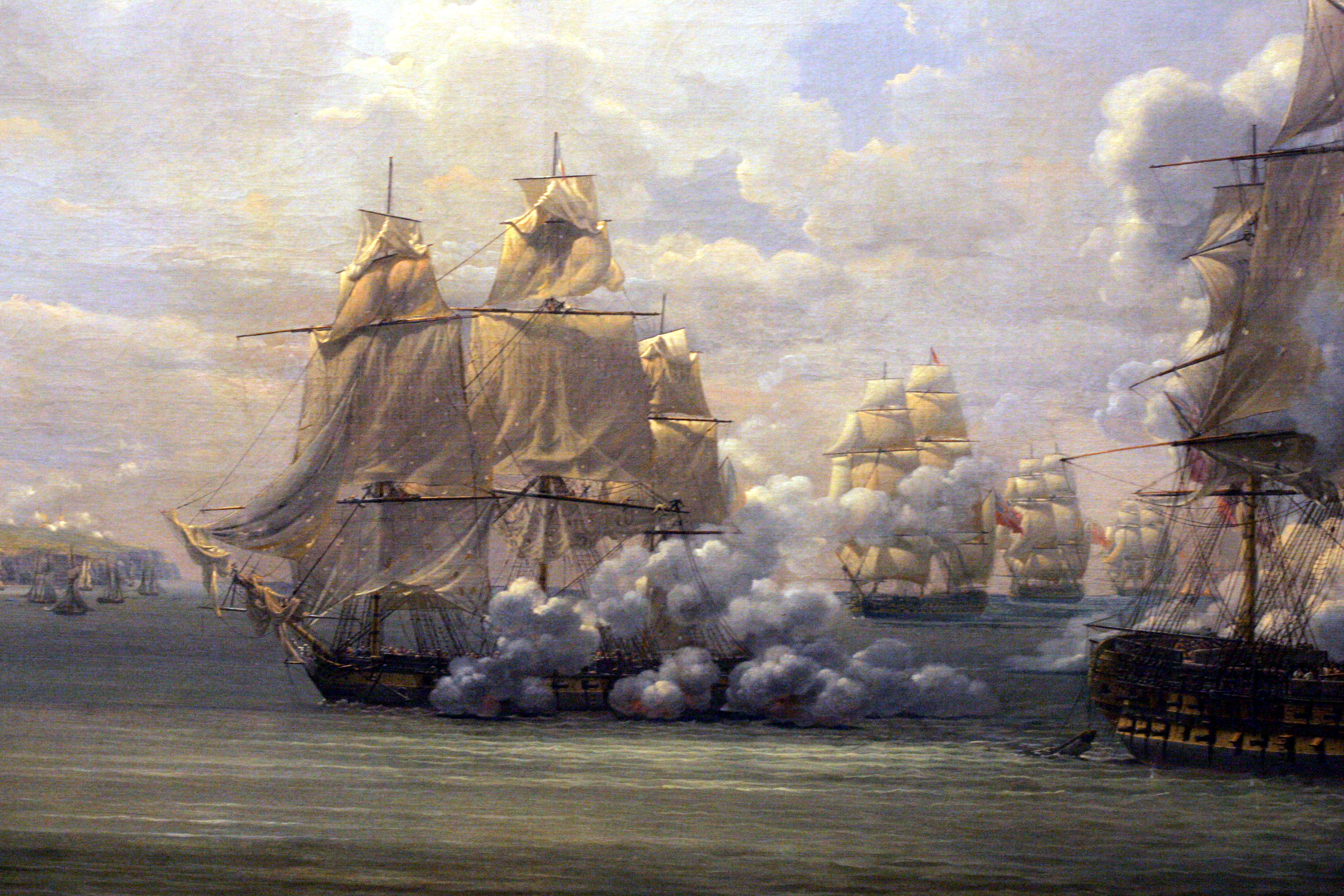 French frigatePoursuivante, a detail of a larger canvas: Combat de la Poursuivante contre l'Hercule, 1803 ("Fight of the Poursuivante against the Hercule", 1803). Which shows the French frigate Poursuivante raking the British ship HMS Hercule, in the action of 28 June 1803.